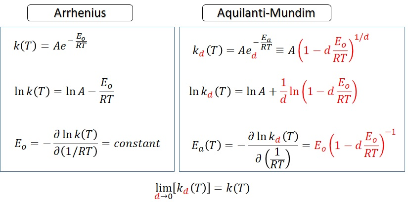 d_Arrhenius_Mundim